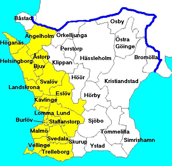 Map of The 33 municipalities of Scania. The yellow coloured , western municipalities has a much higher population density, compared to the eastern part of the province. Further explination in article "Scania"